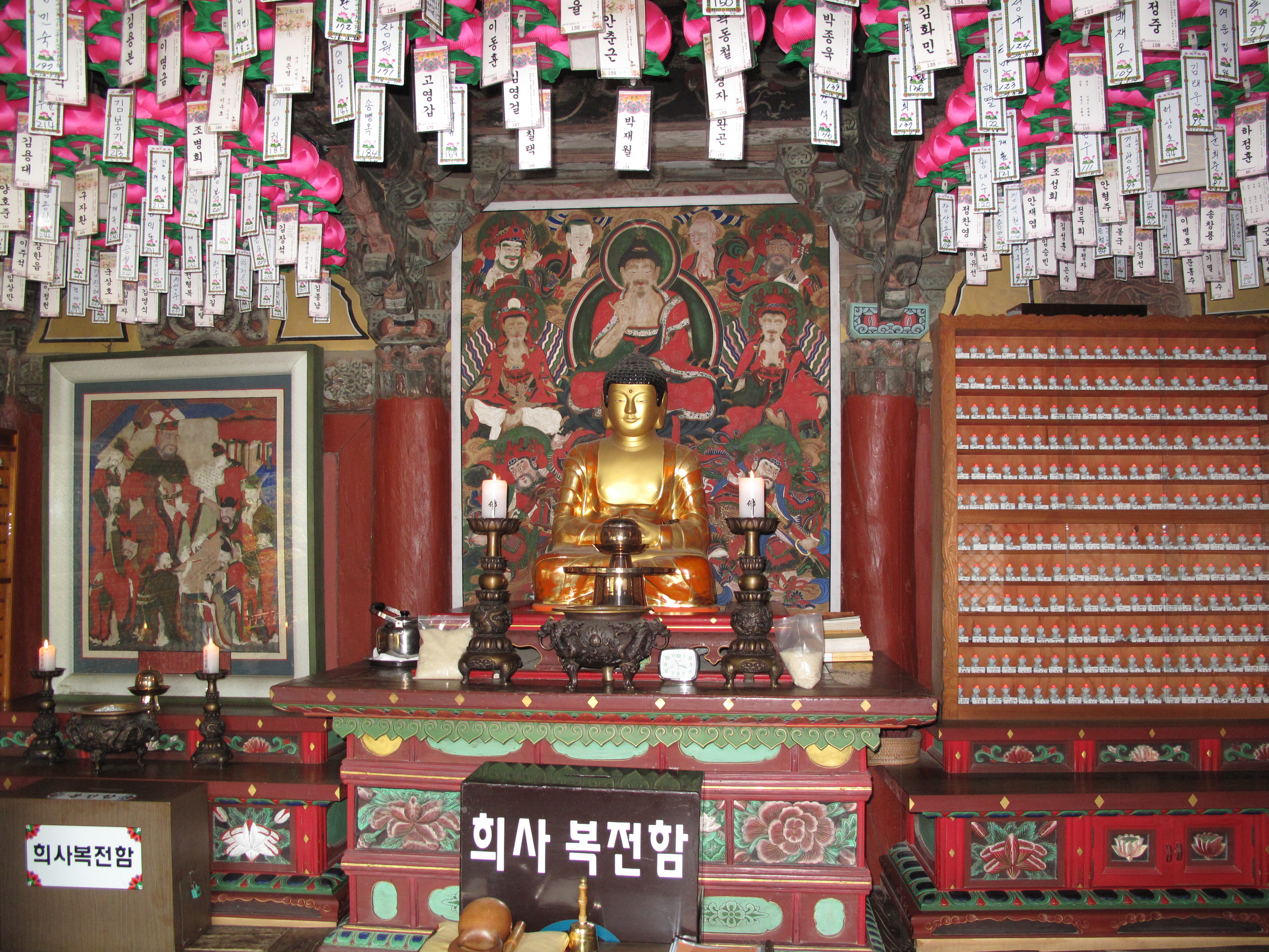 The Medicine Buddha sits upon the altar. Small votives are displayed at photo right. Above, many name-prayer strips as at the Main Hall.